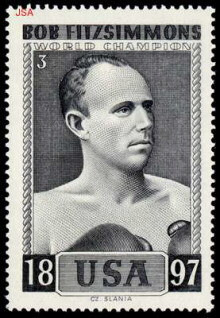 Bob Fitzsimmons, in a private engraving by stamp engraver Czesław Słania. It is #16 in his series of world champion boxers engraved in stamp format. The stamp has only been produced privately.